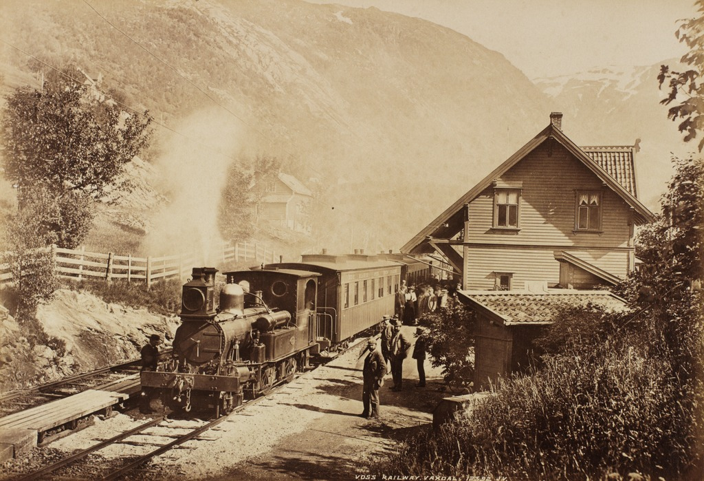 Vaksdal stasjon på Vossebanen/Bergensbanen med sitt opprinnelige lange takutspring. Foto: William Dobson Valentine, fra billedbasen Marcus.